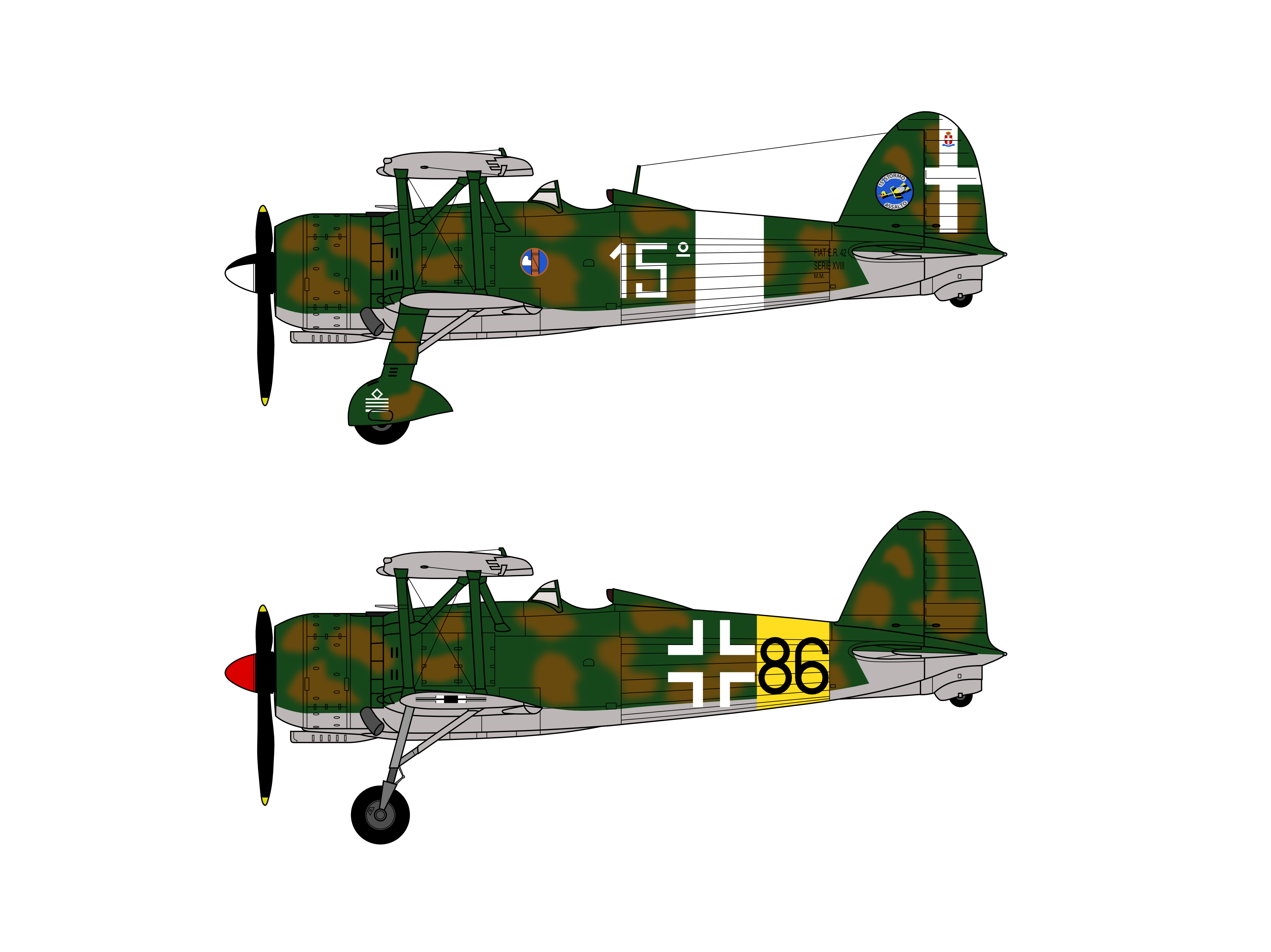 Two profiles of Italian World War II fighter biplane Fiat C.R.42 Falco. Top: A Fiat C.R.42 of Regia Aeronautica's 15th Wing (15o Stormo Assalto), based in Barca, Cyrenaica, Libya in 1942. Bottom: A Fiat C.R.42 of Luftwaffe's JG/107, based in Nancy-Essay, France in 1944.